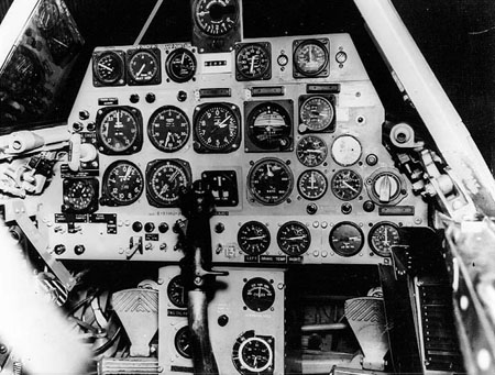 Convair F-106A prototype lower front panel